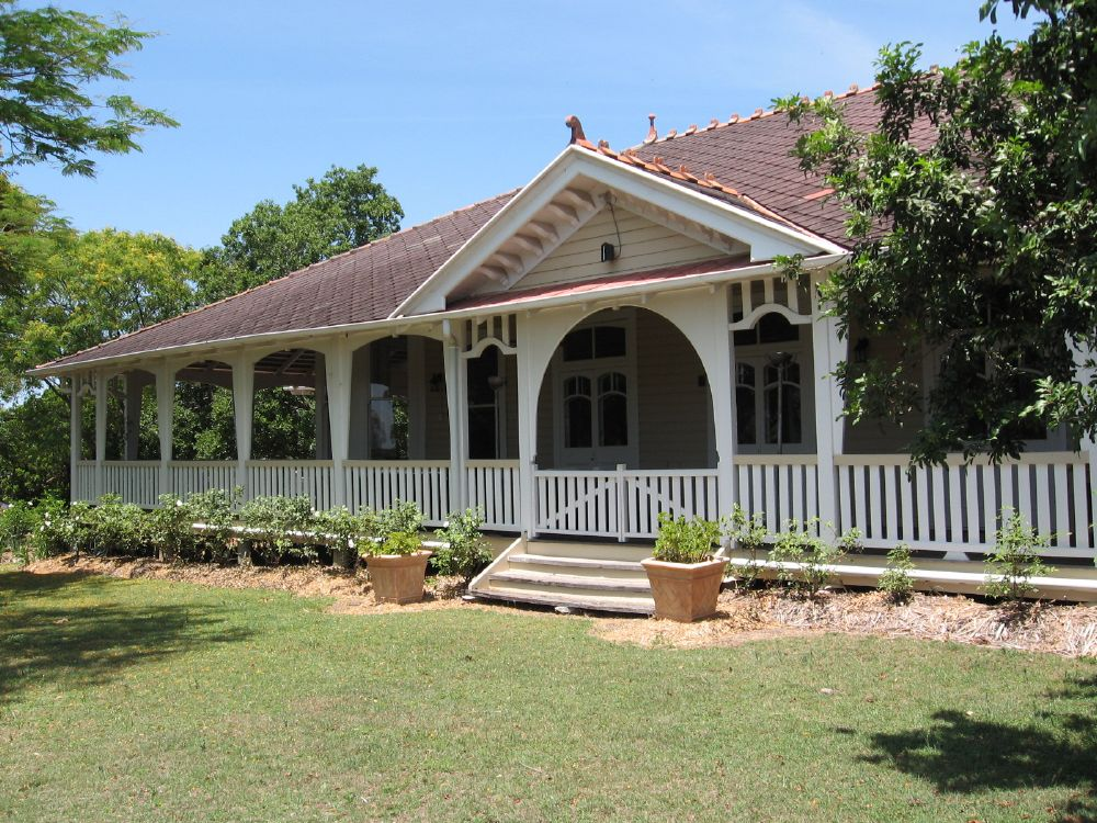 Inverness residence, Toogoolawah, 2007